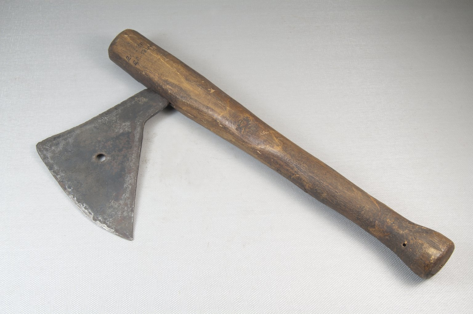 Axe with Handle and Blade